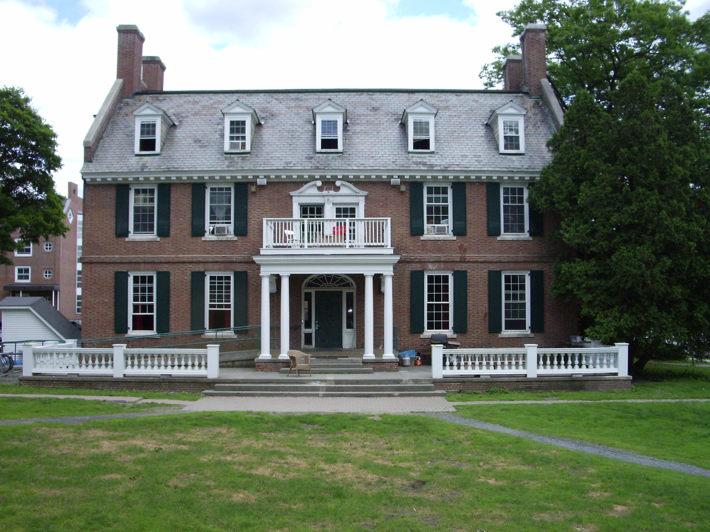 Photograph of Alpha Delta at the campus of Dartmouth College in Hanover, New Hampshire.